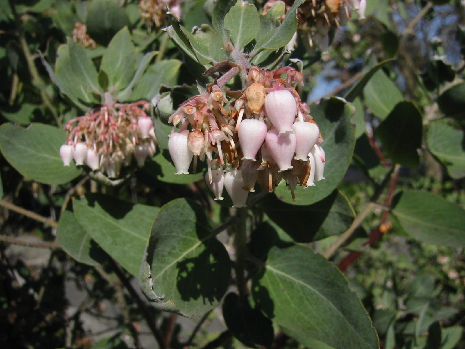 Whiteleaf Manzanita in the Ethnobotanical garden of the Burke Museum.